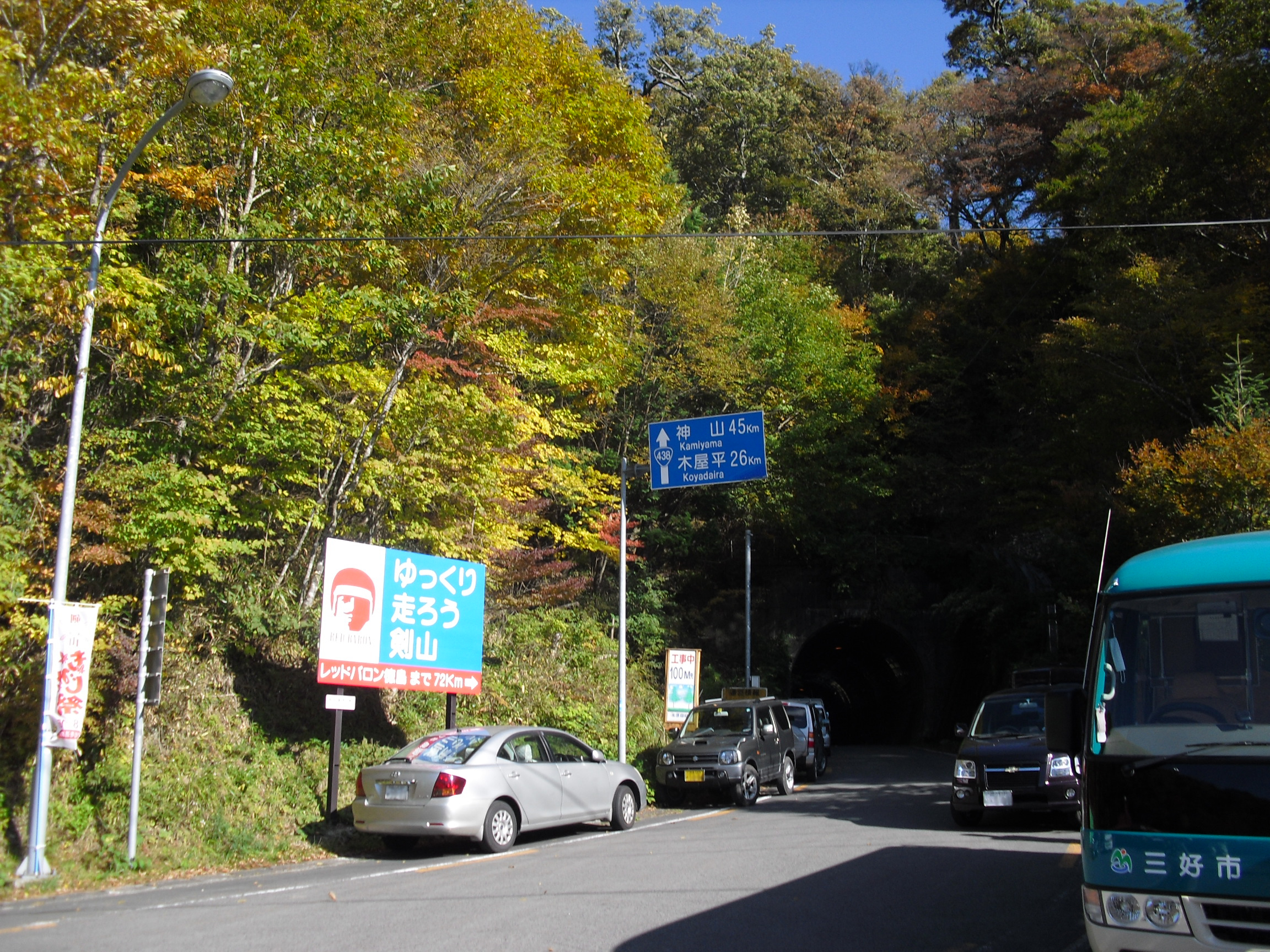 Minokoshi-pass